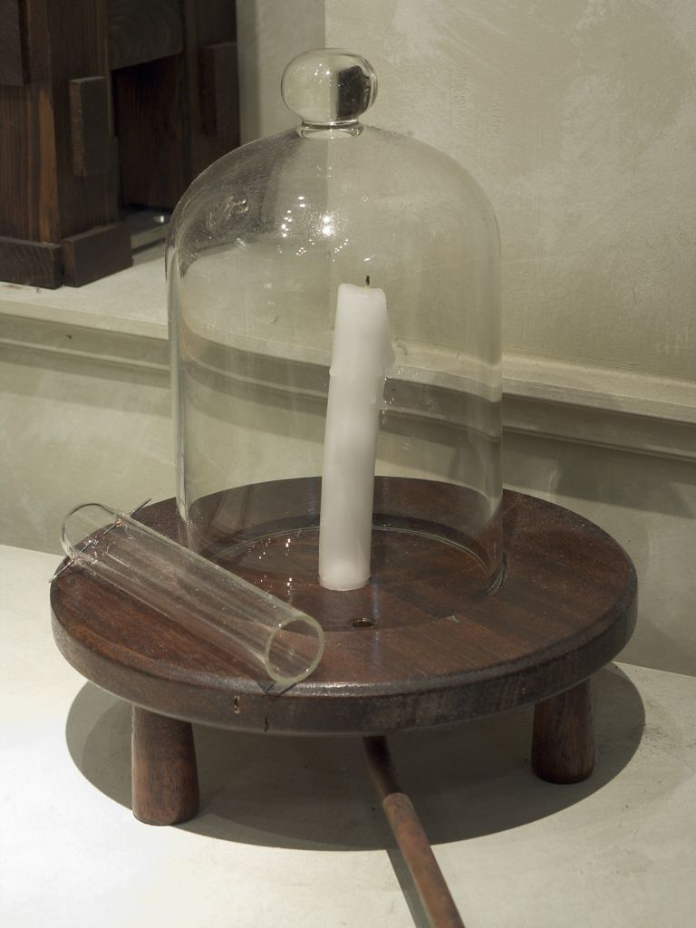 Model of Joseph Priestley's bell jar and glass tube', on display in Thinktank, Birmingham Science Museum. Editing undertaken: Unsharp Mask